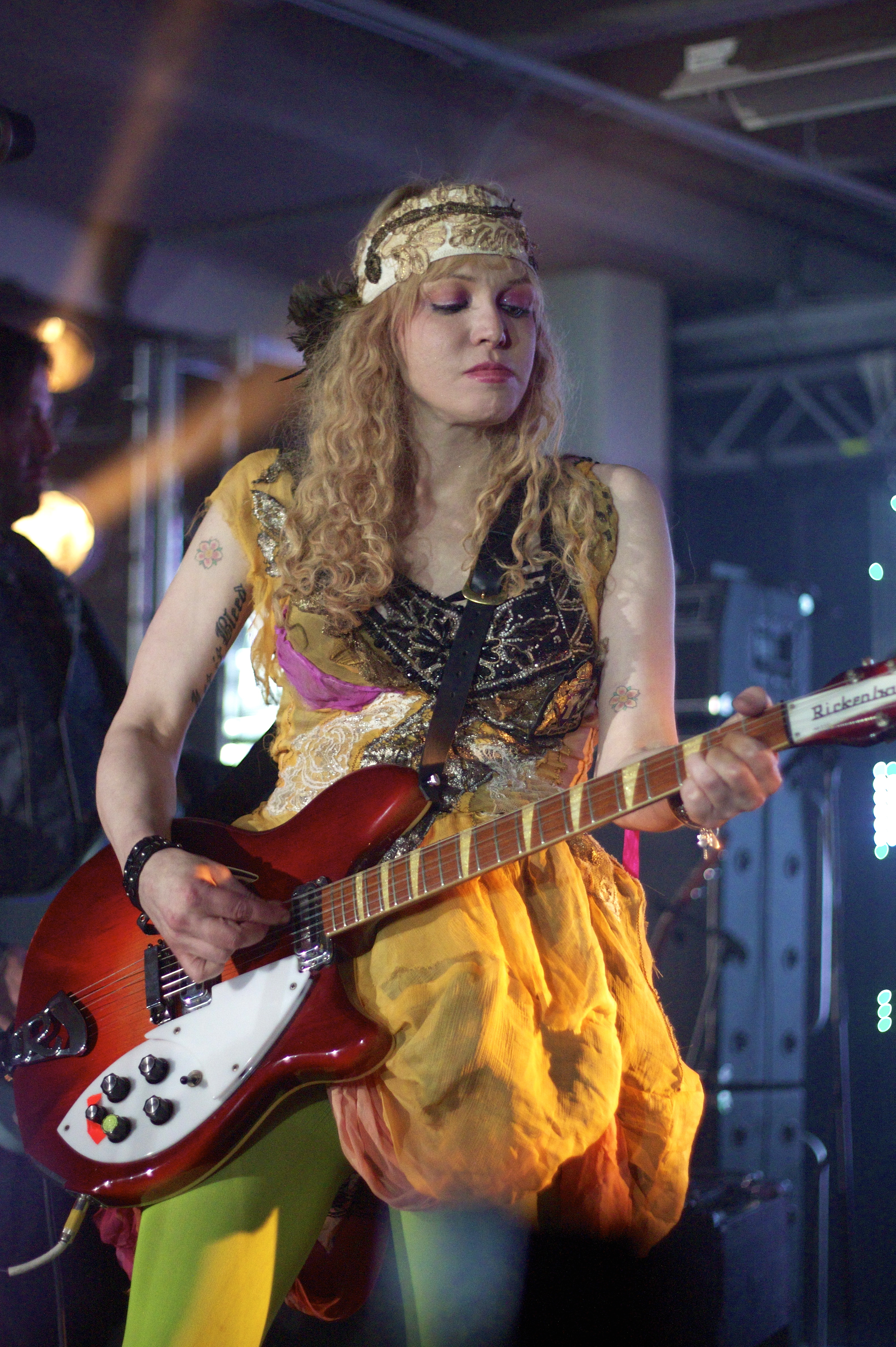 Courtney Love performing in Austin, TX, March 20, 2010.